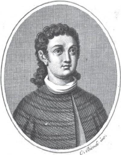 Cielo d'Alcamo, Sicilian poet